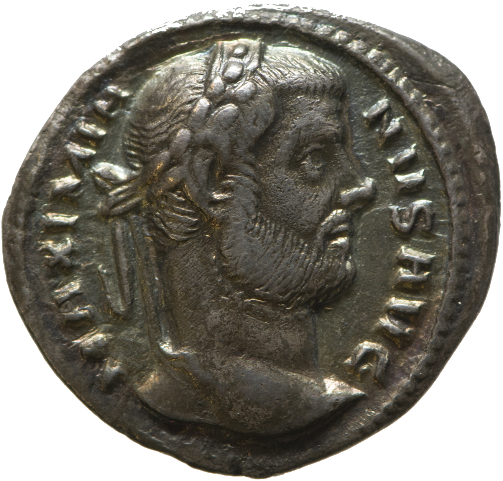 Obverse (front) of a argenteus of Maximian Head right laureate